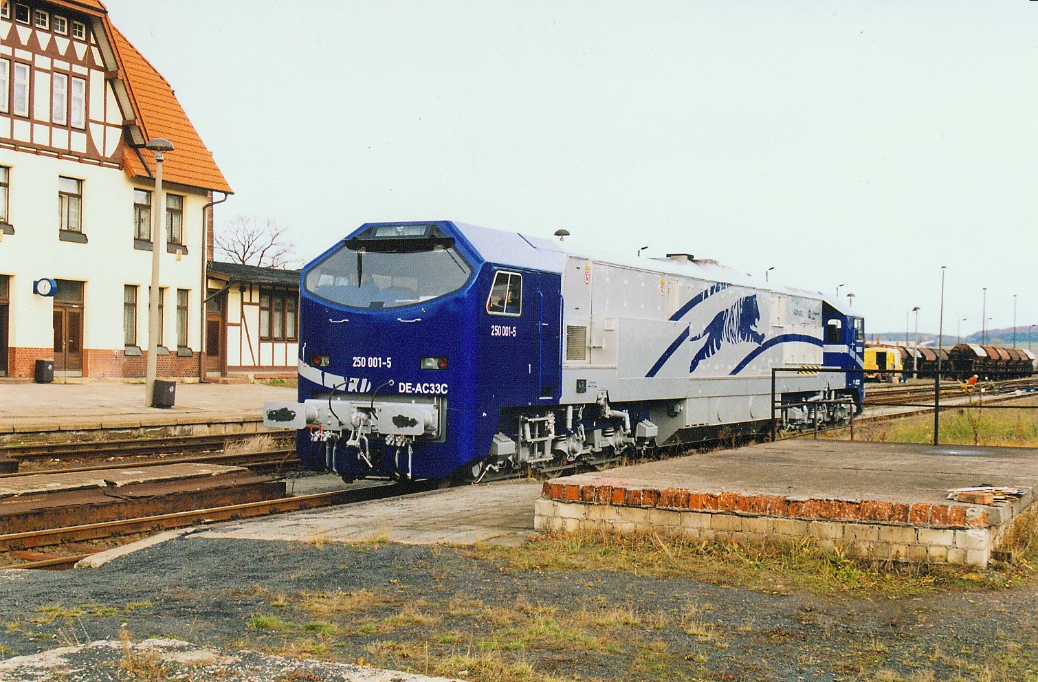 The locomotive "Blue Tiger" in Vacha, Germany